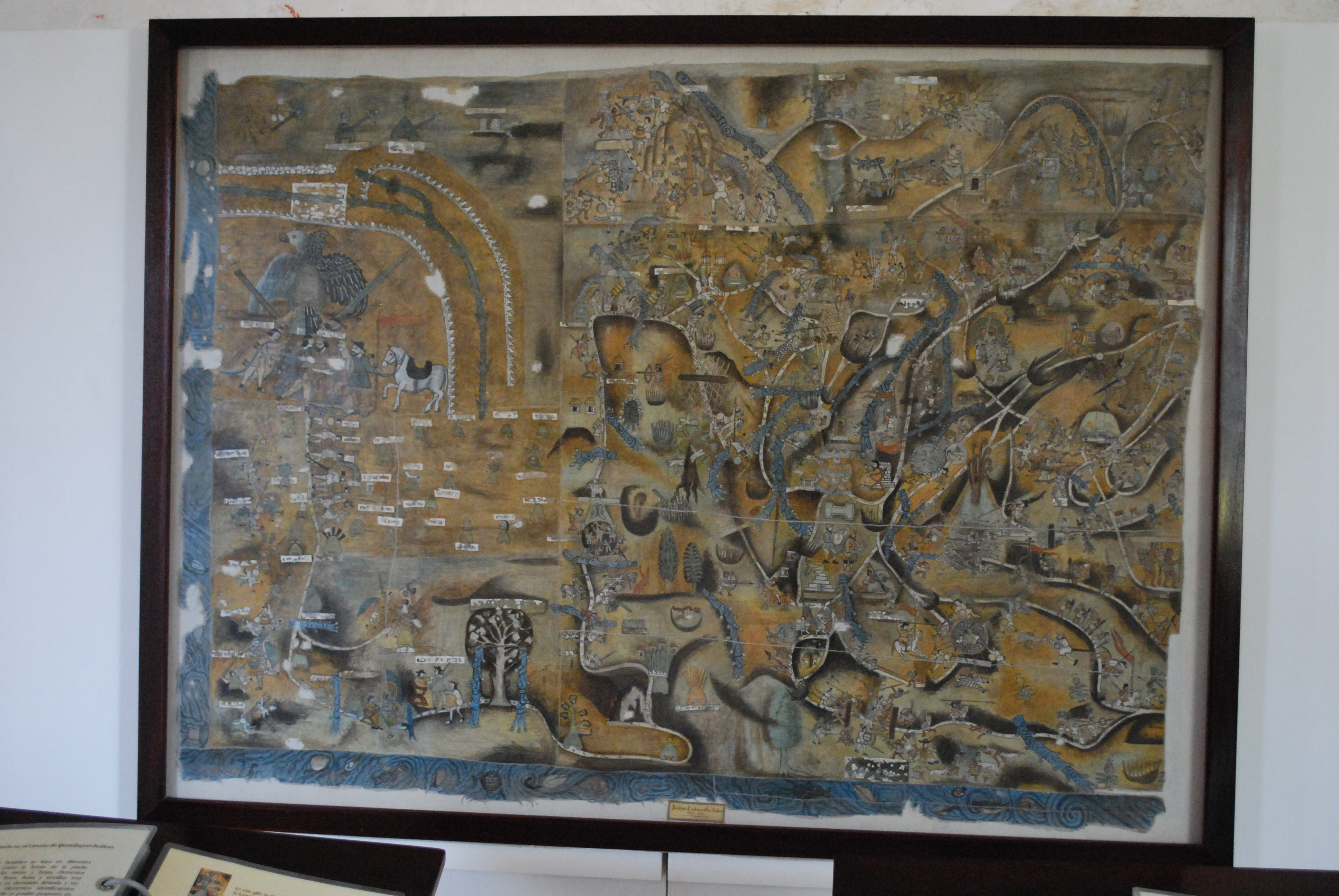 El Lienzo de Quauhquechollan on display at the former monastery of San Martin Caballero in Huaquechula, Puebla